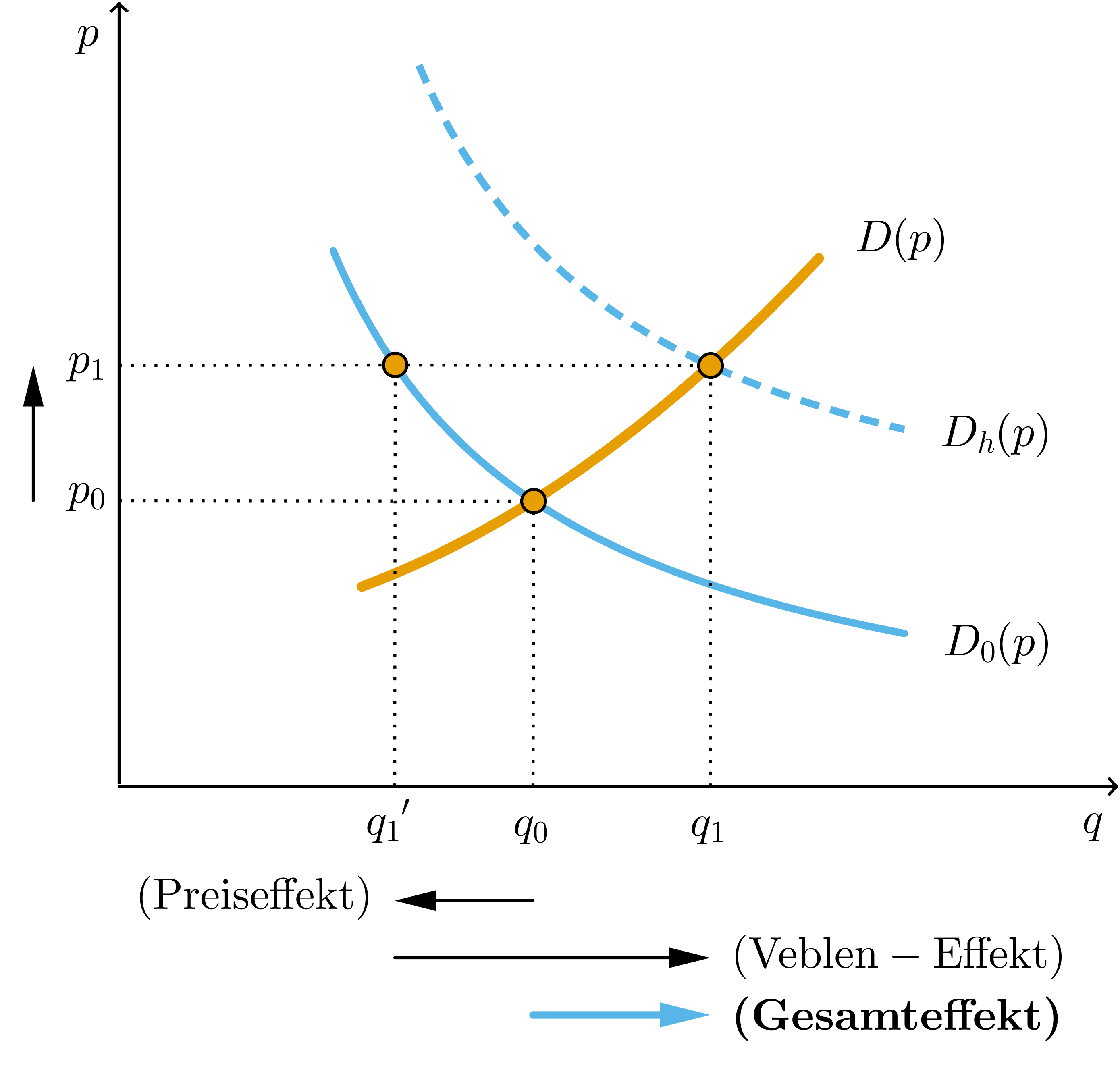 Veblen Effect.